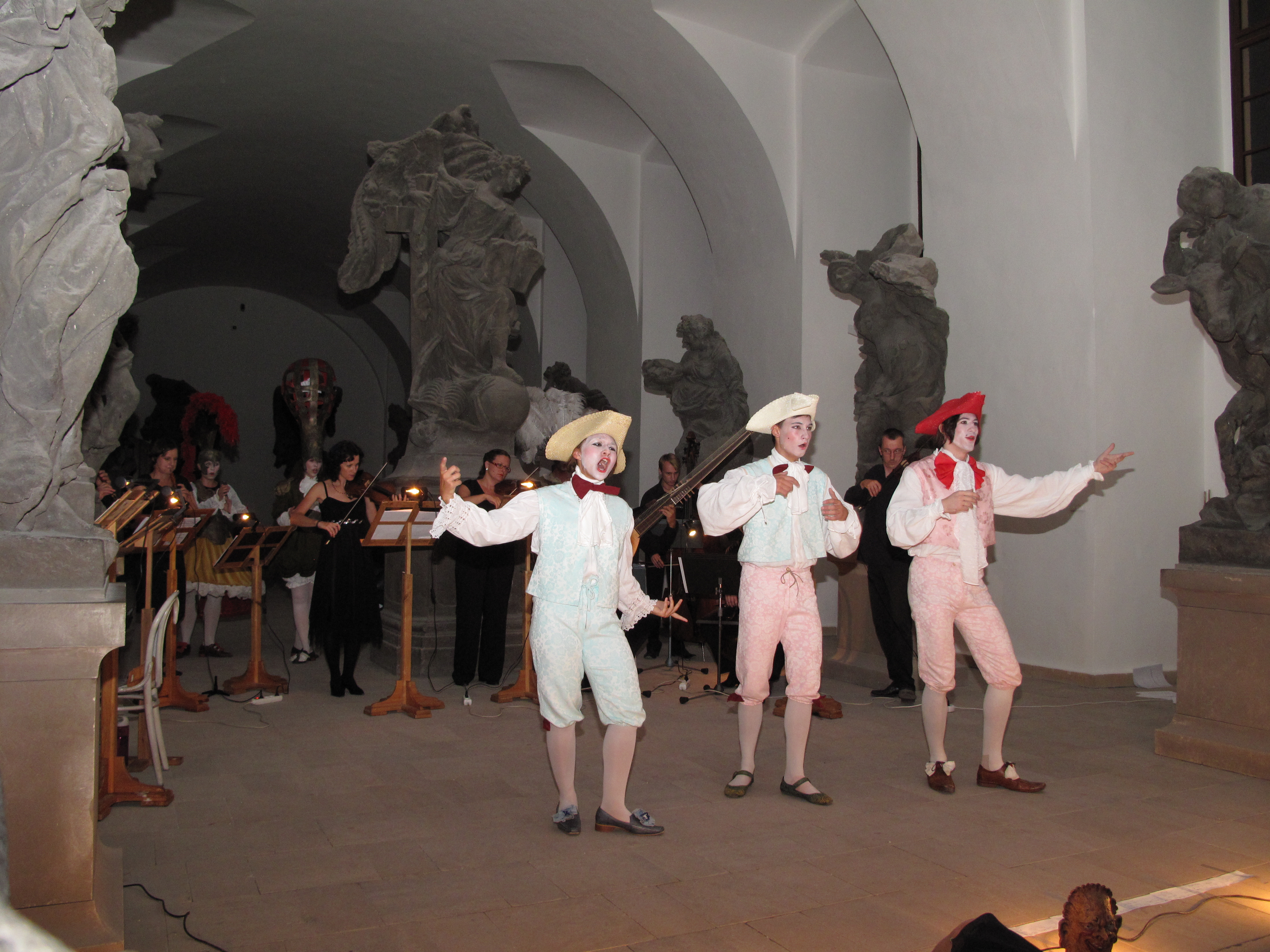 Actors of the opera of Domenico Lalli and Antonio Vivaldi: La Senna festeggiante (1726) performed by Ensemble Damian at the festival of Baroque culture Theatrum Kuks, Kuks, Trutnov District, Czech Replublic. Personality rights warningAlthough this work is freely licensed or in the public domain, the person(s) shown may have rights that legally restrict certain re-uses unless those depicted consent to such uses. In these cases, a model release or other evidence of consent could protect you from infringement claims.